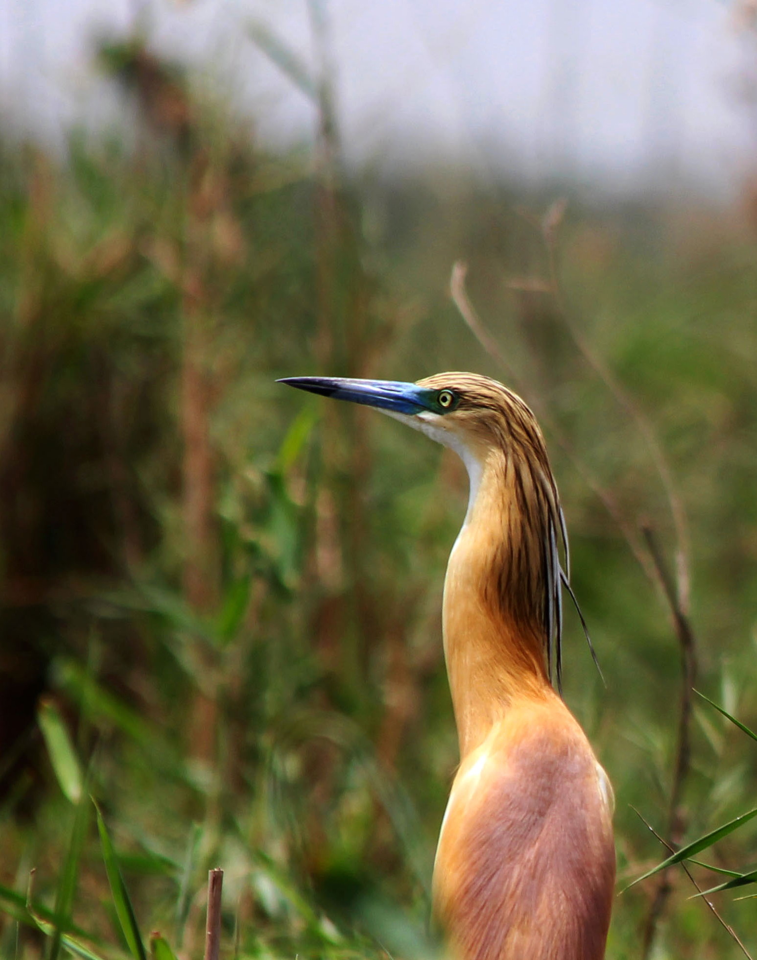 Squacco heron on central marshes of iraq